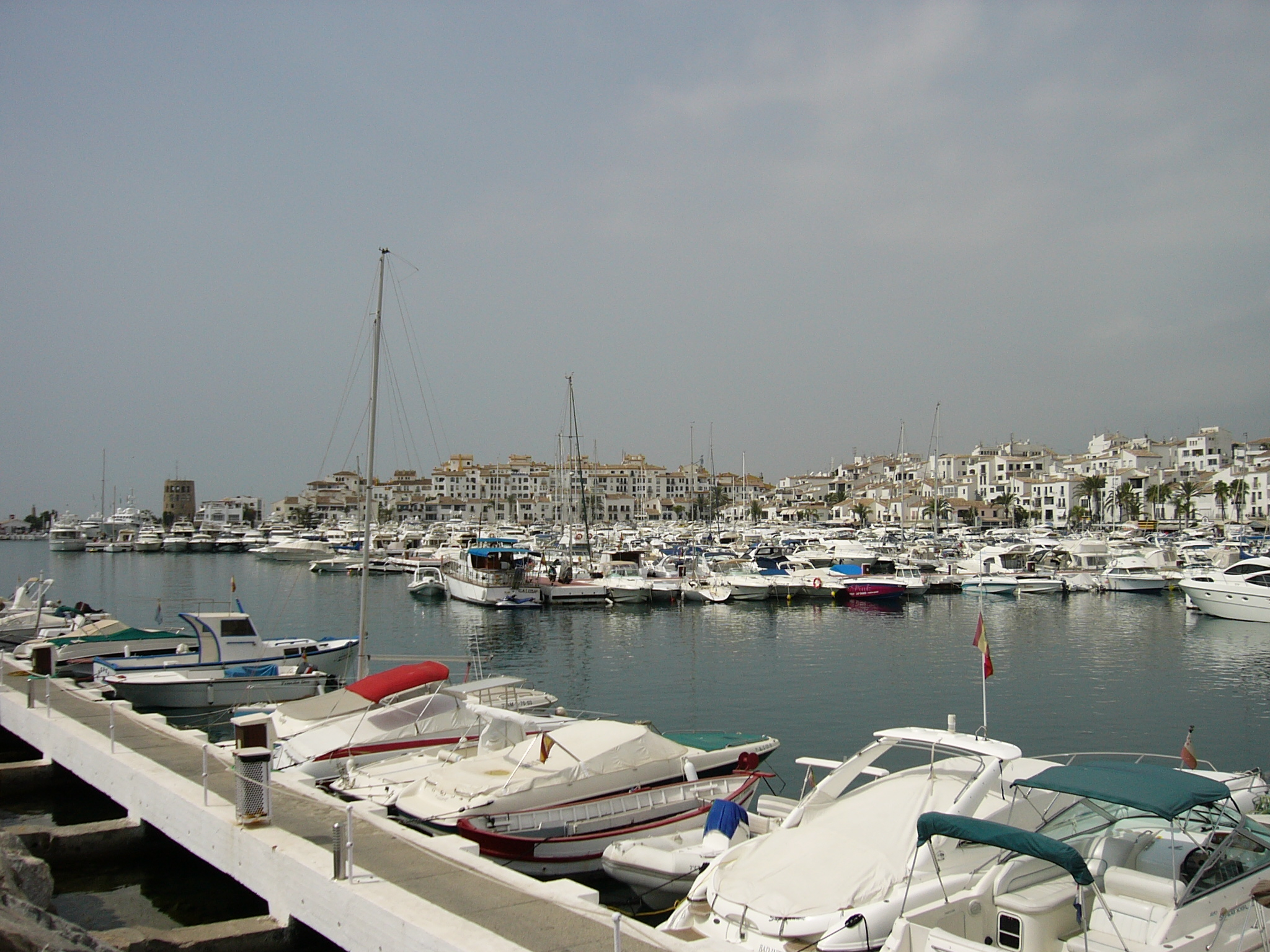 Description: Puerto Banús City: Marbella Country : Spain Photographer: © Manuel González Olaechea y Franco Shot date : September 8th, 2004